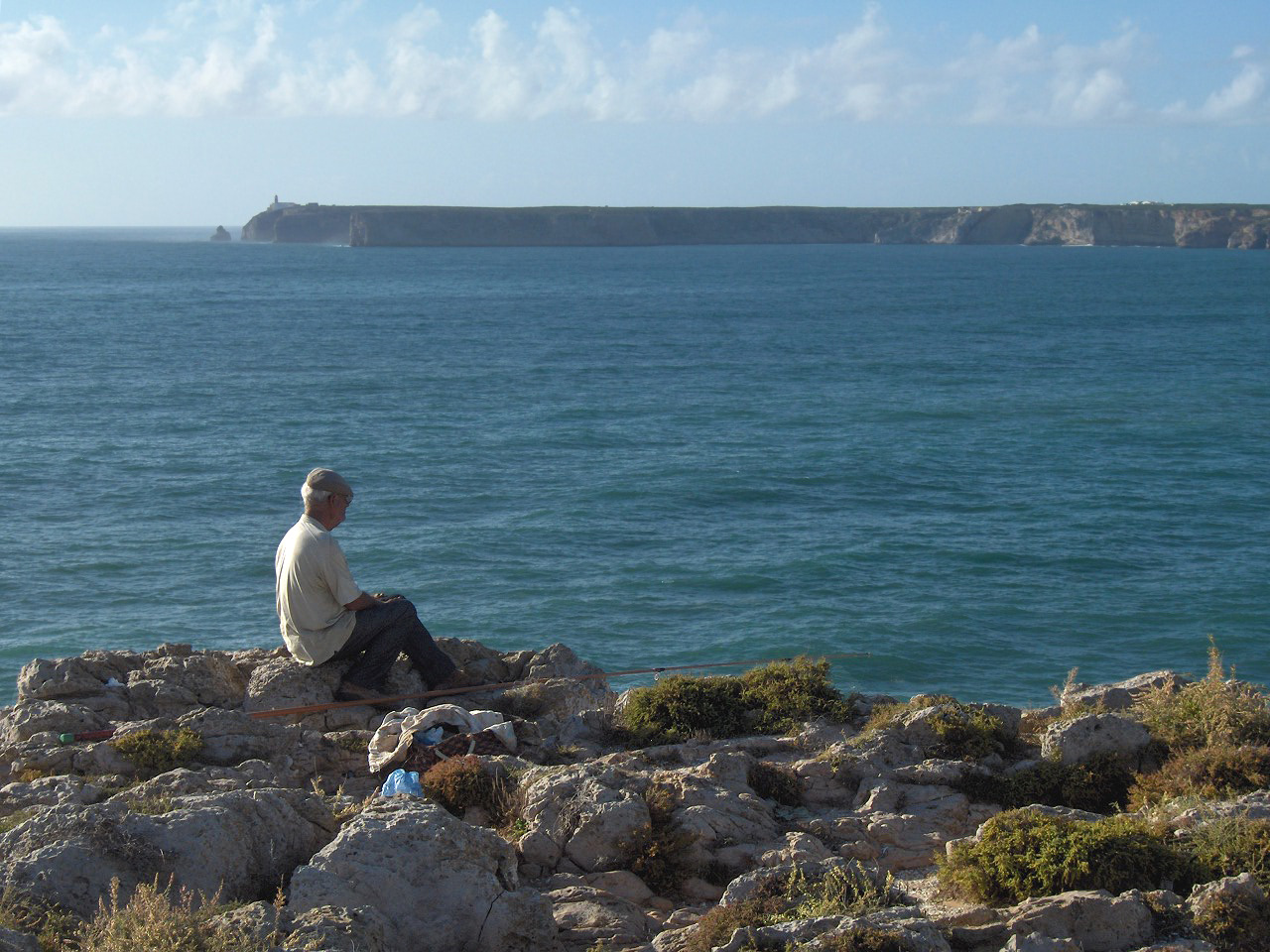 View on the Atlantic Ocean from Ponta de Sagres (in the background Cape St. Vincent); Sagres, Portugal.